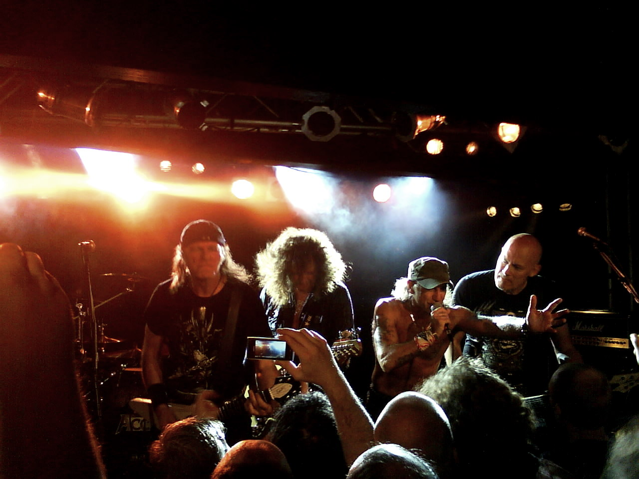 Picture of Accept performing in Stockholm, at Debaser Slussen